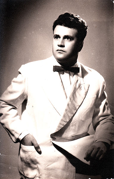 к